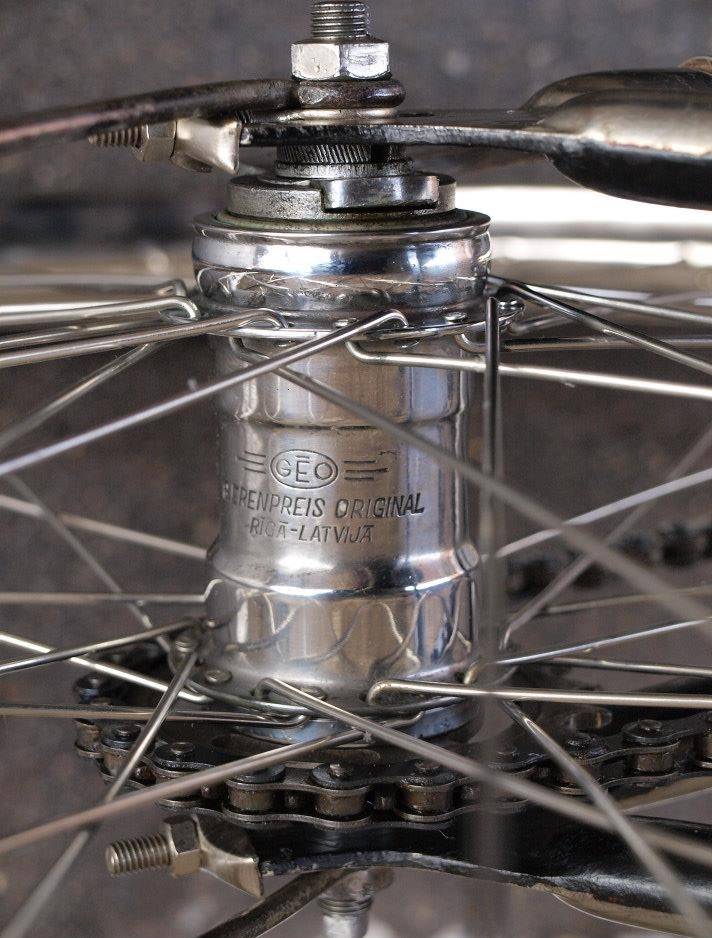 G. Ērenpreis bicycle freewheel hub, manufactured in 1939 (photo taken by Ance Pudane, Nov 2013)